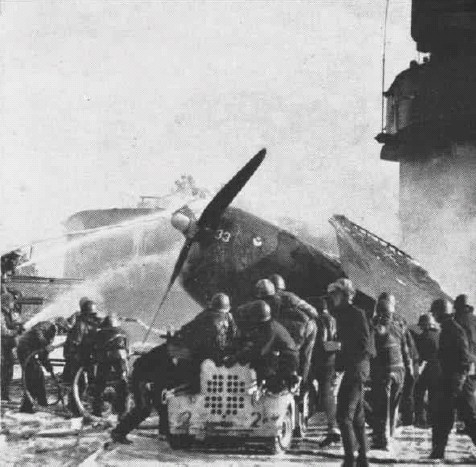 Firefighting and the remains of a Grumman F6F-5 Hellcat on 14 May 1945 aboard the U.S. Navy aircraft carrier USS Enterprise (CV-6) after a kamikaze suicide plane hit the forward elevator.